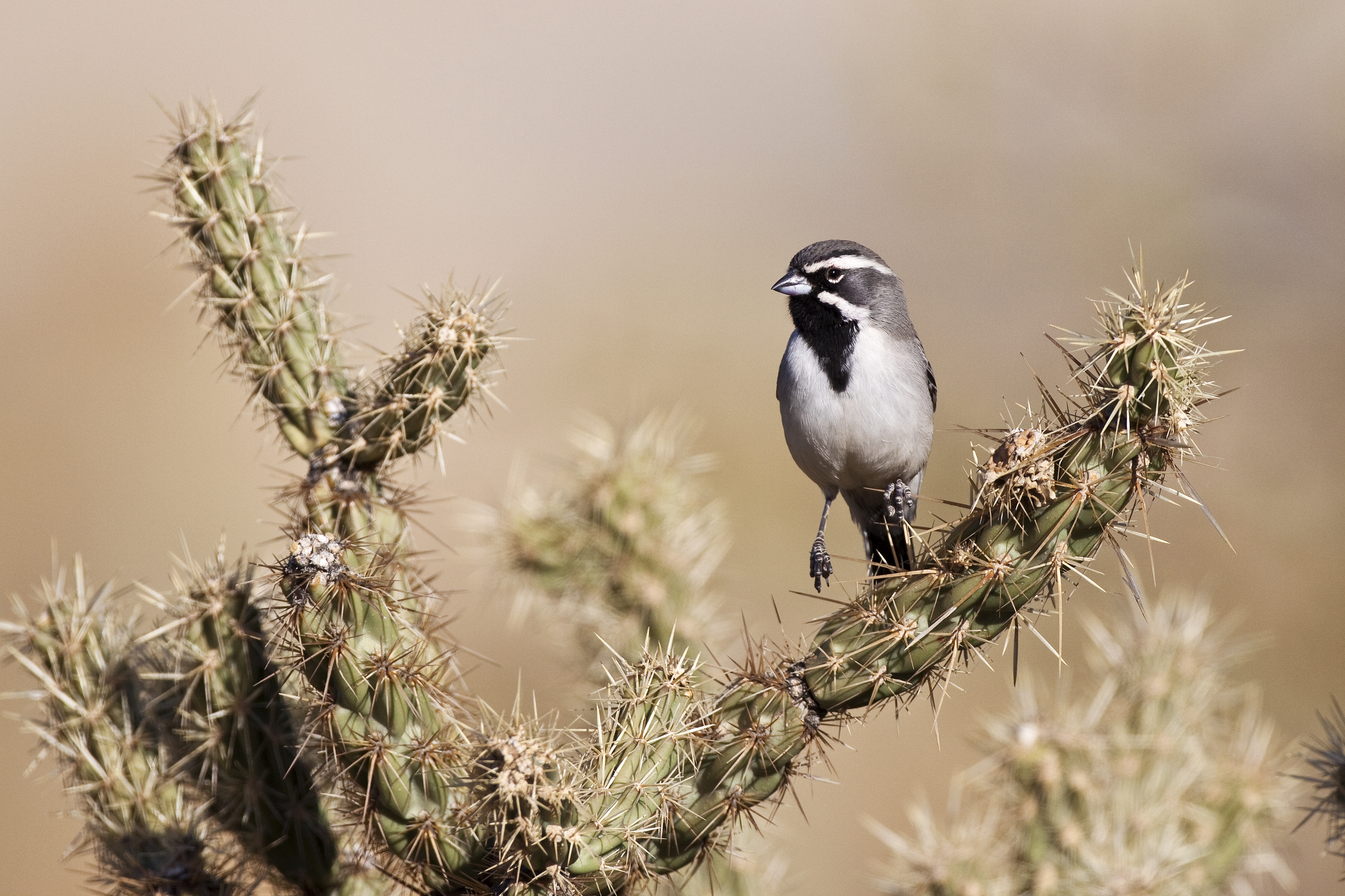 A Black-throated Sparrow in Cloride, Arizona, USA. It is perching on a cactus.